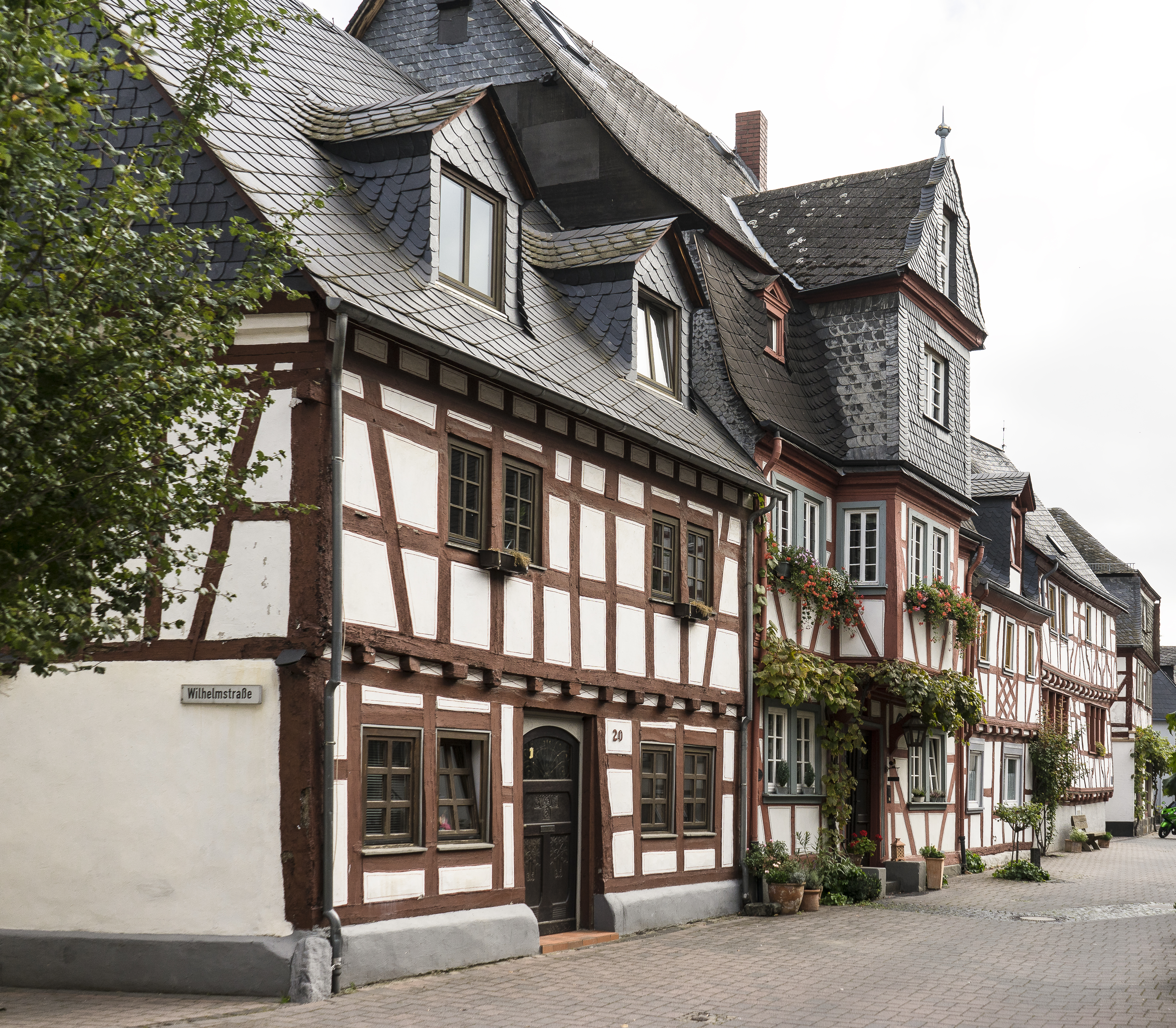 Mainstreet Osterspai at Rhineriver/Rhineland-Palatinate, Germany